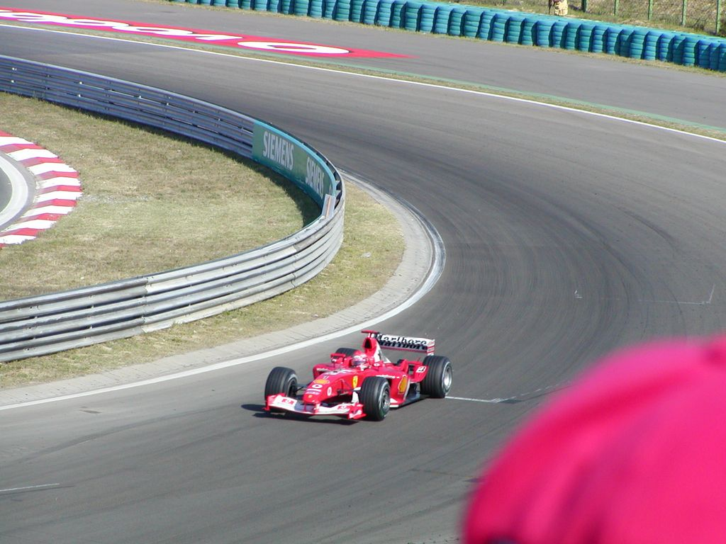 Ferrari in the last corner at the 2003 Hungarian Grand Prix.